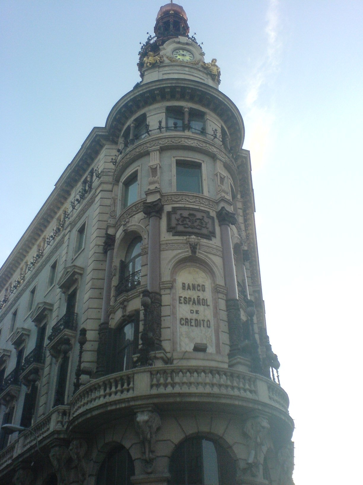 Palacio de la Equitativa (former headquarters of La Equitativa insurance company), projected by architect José Grases Riera (1850–1919) and built in Madrid (Spain) between 1887 and 1891. At the present time it's a Banesto's office building.